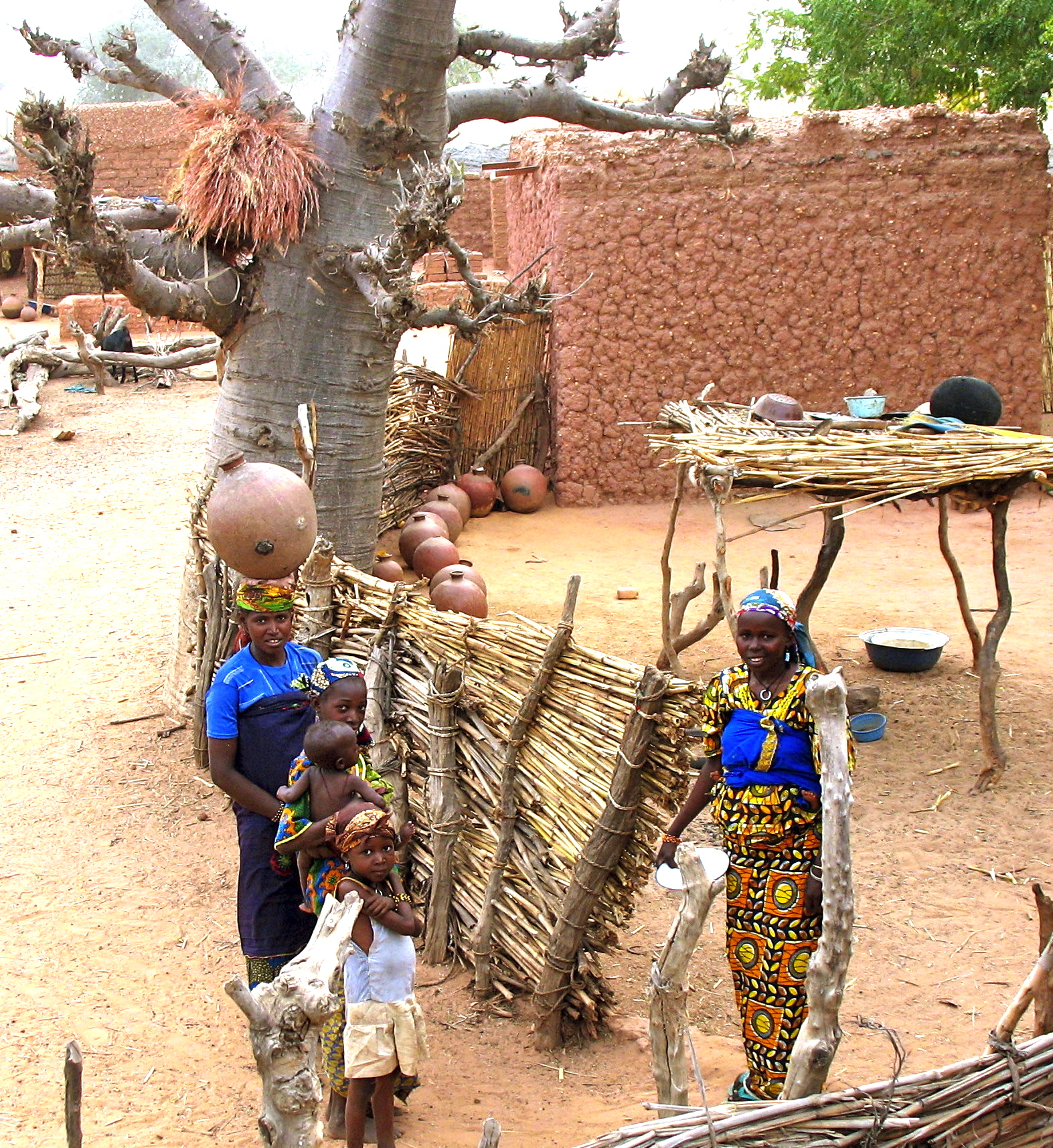 Hausa women in a village near Maradi, Niger